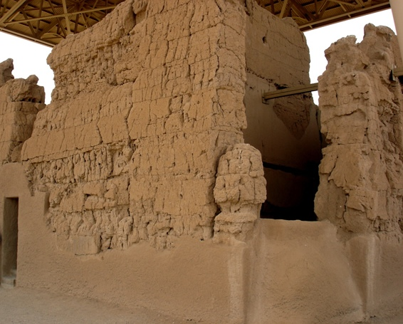 Casa Grande National Monument. No, I do not know who the dude is staring at my camera. I think he was posing for someone else's photograph and was arbitrarily turning or something when I snapped this.